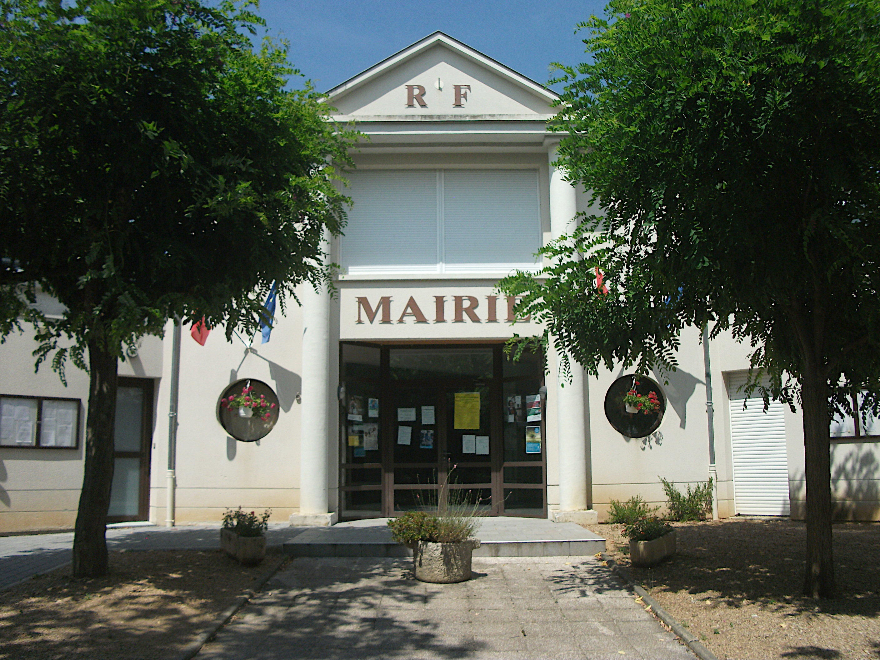 Town hall of Noalhat, Puy-de-Dôme, Auvergne-Rhône-Alpes, France. [18599]